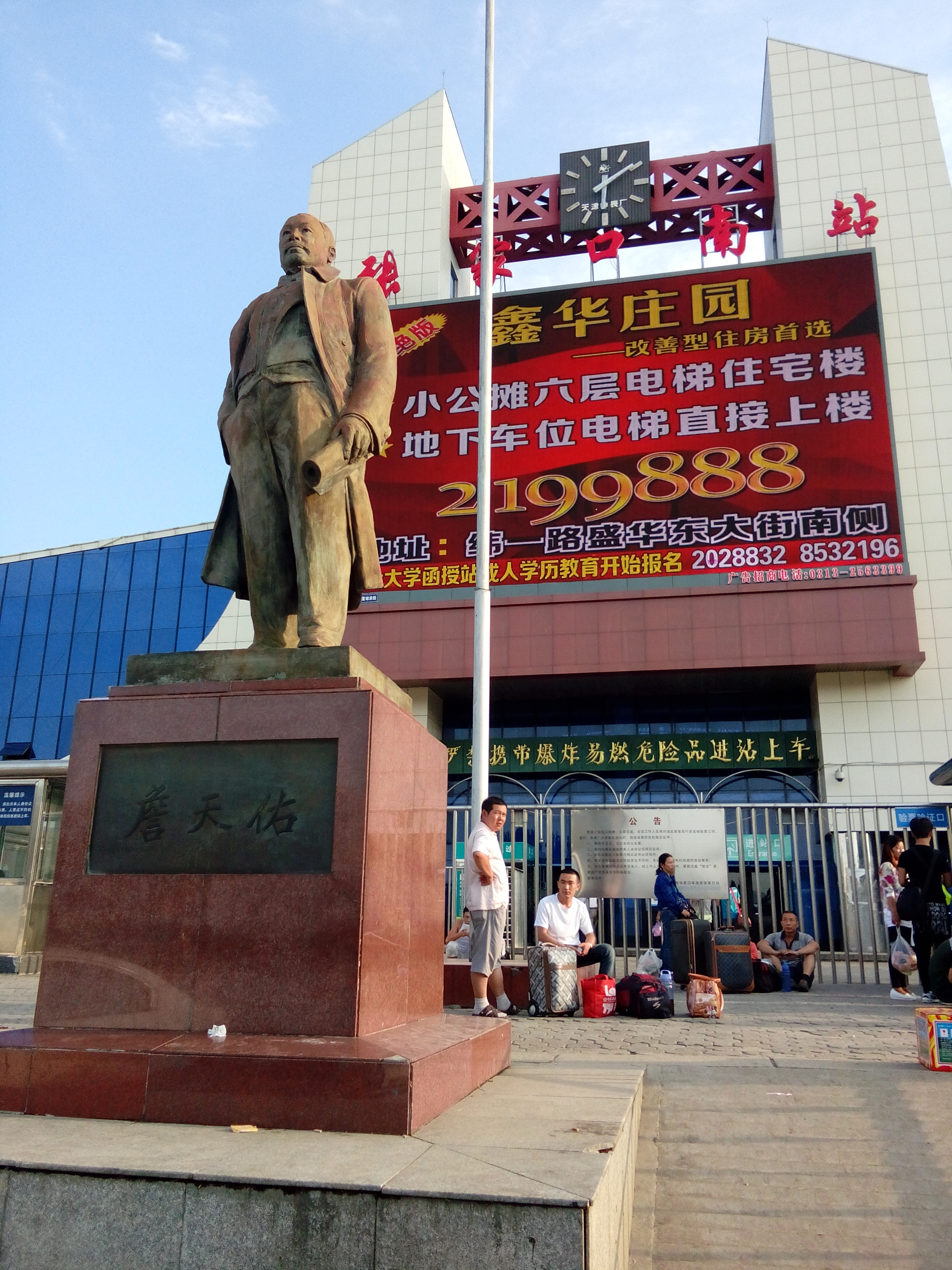 Zhan Tianyou statue